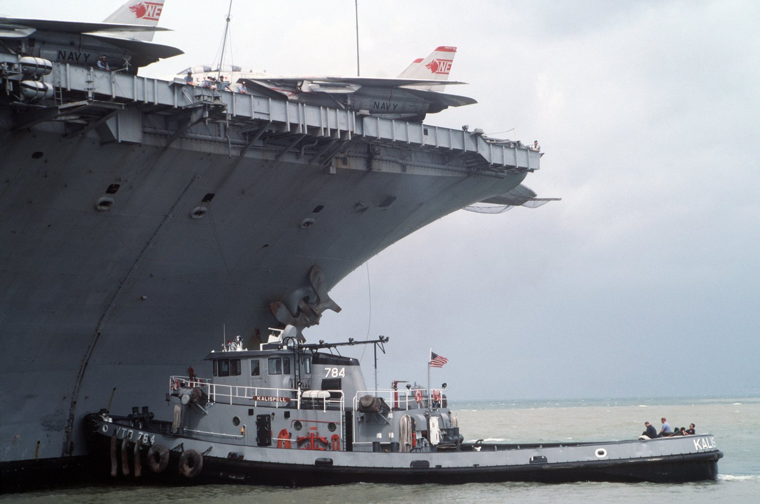 Kalispell (YTB-784) pushes against the bow of the aircraft carrier USS Ranger (CV-61) as she guides the carrier into her berth. DVIC photo # DN-ST-89-10551 by PH1 Morris D.P. Flynn, a US Navy photo now in the collections of the Defense Visual Information Center.